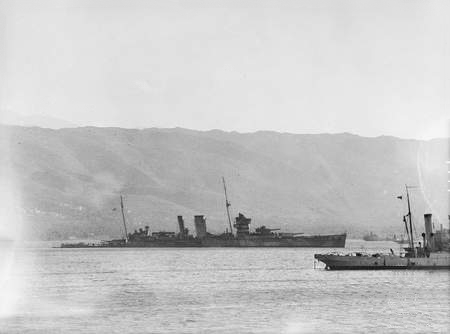 British heavy cruiser HMS York (left) and an oil tanker (right) in Souda Bay, Crete after they had been damaged.